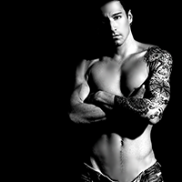 Christopher Watson Designer/Musician